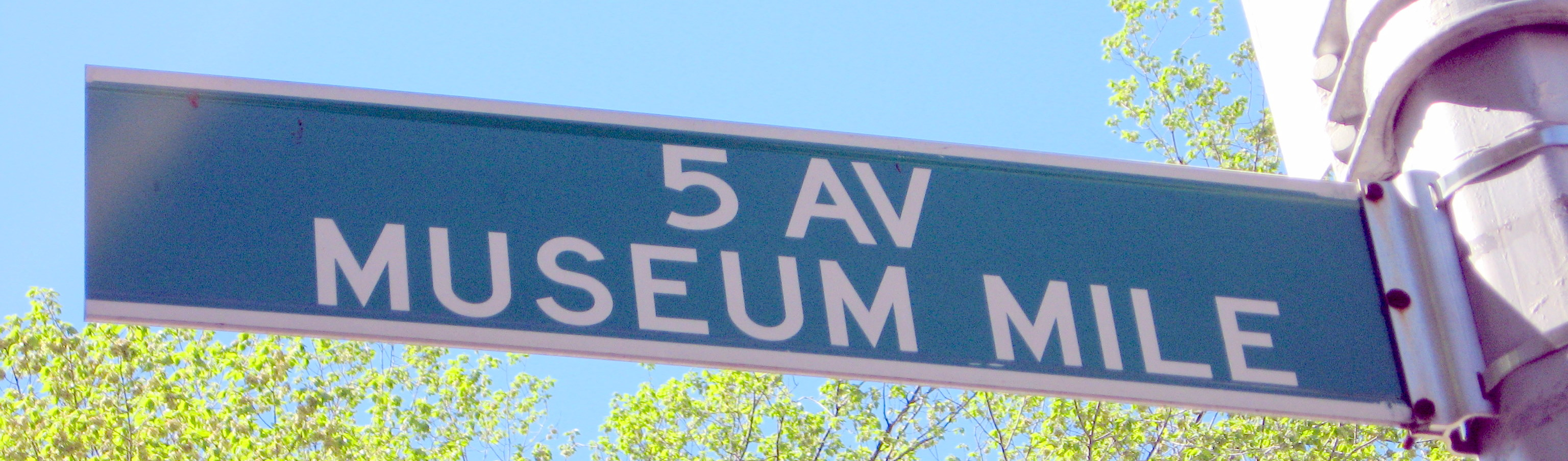 Street sign designating Museum Mile in New York City